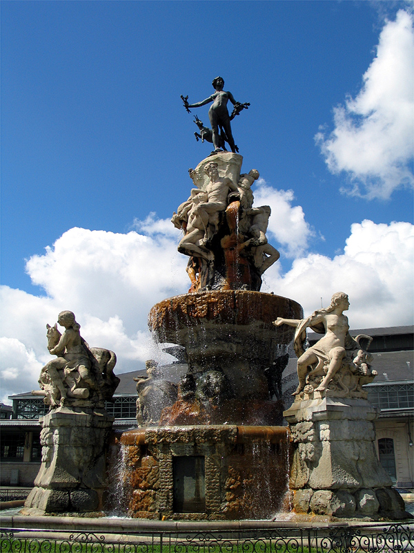 Fontaine Duvignau (ou Fontaine des Quatre Vallées). Place Marcadieu in Tarbes. France